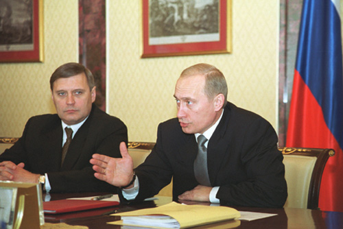 THE KREMLIN, MOSCOW. With Prime Minister Mikhail Kasyanov at a meeting of the State Council Presidium.